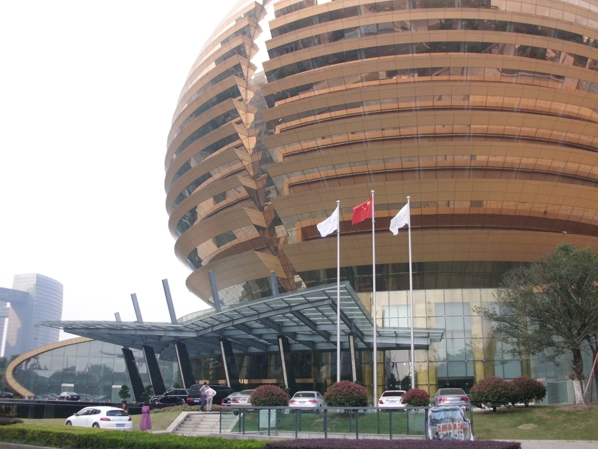 Hangzhou International Conference Center